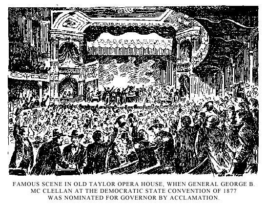 Source: , specifically: "Famous scene in old Taylor Opera House, when General George B. McClellan at the Democratic State Convention of 1877 was nominated for governor by acclamation"